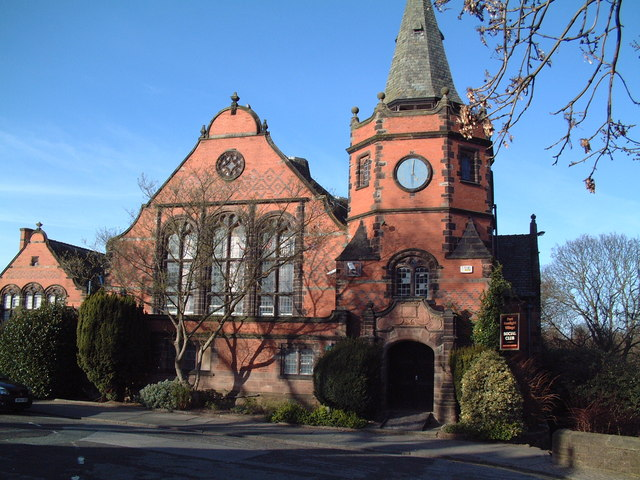 If the Port Sunlight Social Club looks to you rather like a church, there is a good reason. At one time it was.